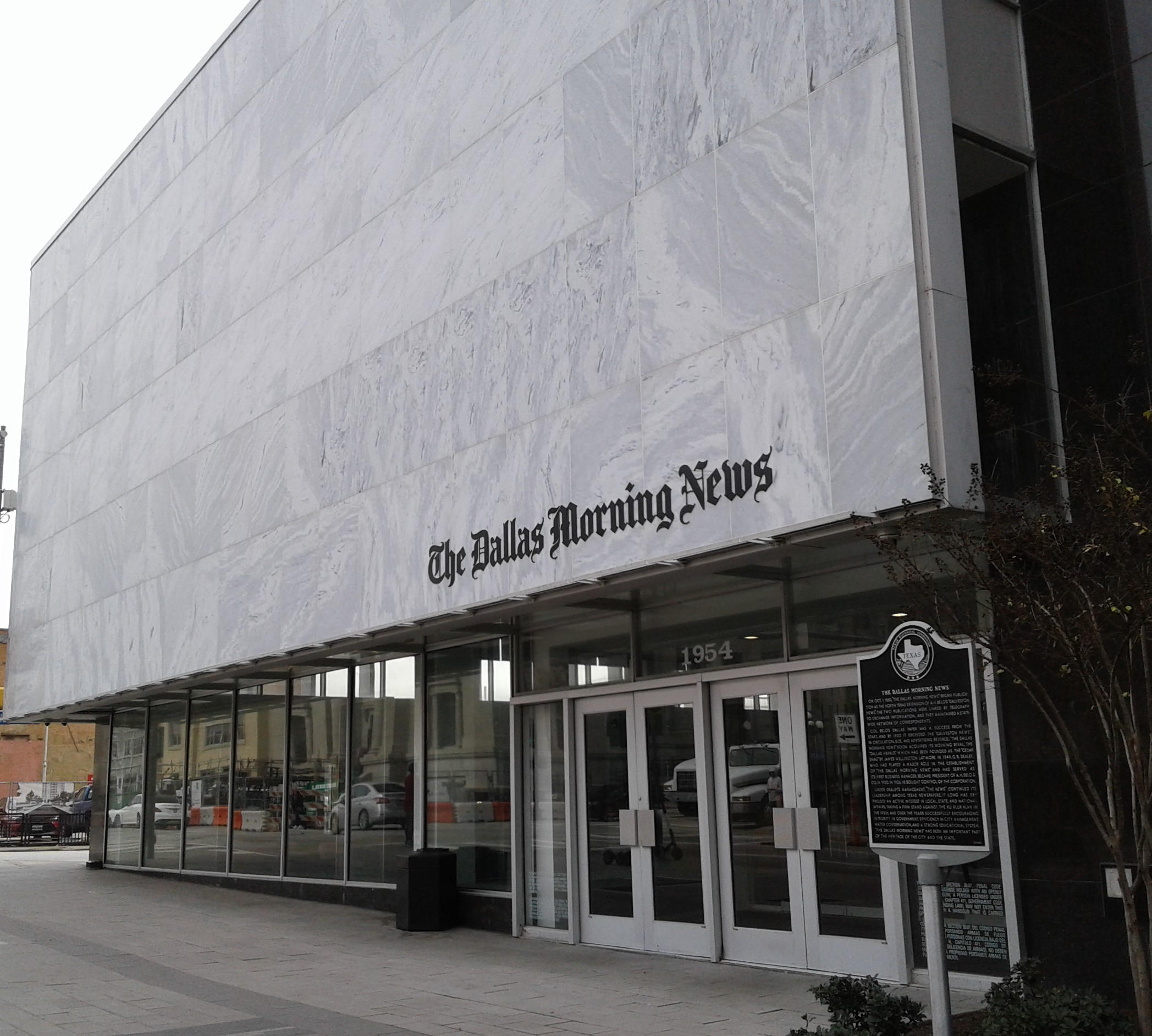 Facade of Dallas Morning News offices in downtown Dallas